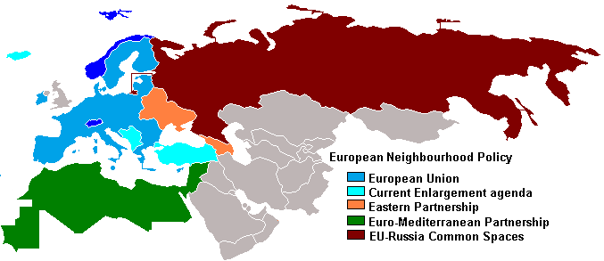 EU neighbourhood initivatives